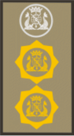 Municipal Guard Inspector Insignia, Rio de Janeiro Municipal Guard